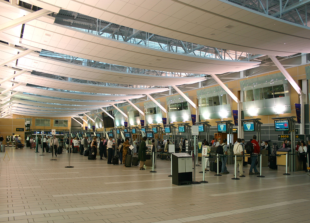 Interior view of the Vancouver International Airport's domestic check-in area